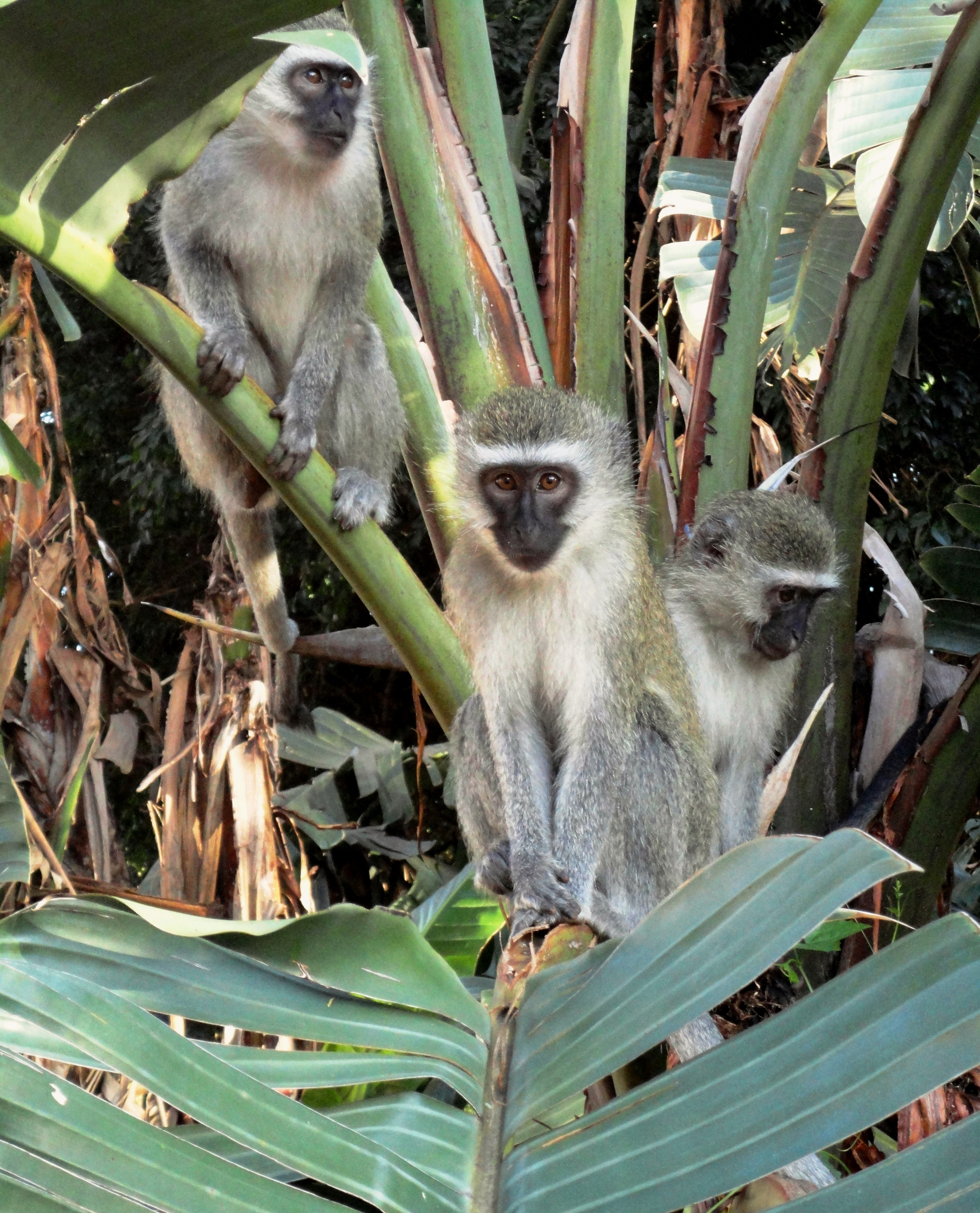 Vervet Monkeys at Burman Bush Nature Reserve in Morningside, Durban